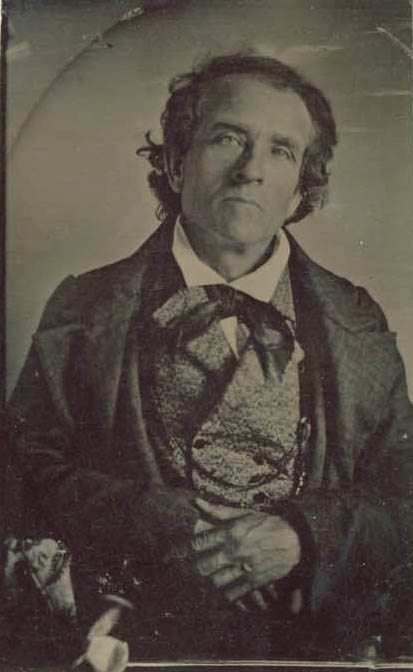 photo of Theodore Dwight Weld